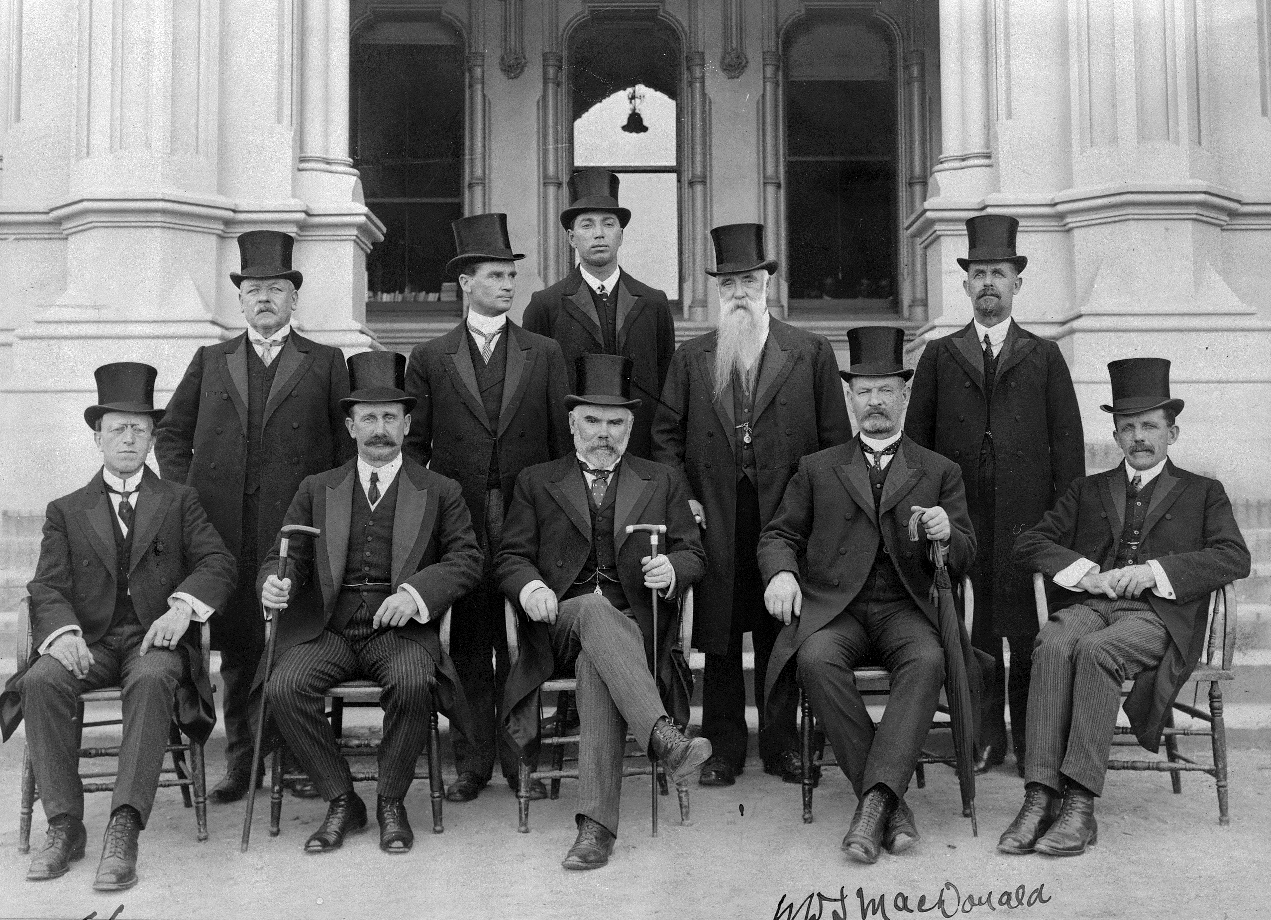 Photograph of Prime Minister Thomas Mackenzie and his Cabinet Ministers. Front: Josiah Hanan, Arthur Myers, Thomas Mackenzie, William McDonald, George Laurenson. Back Row: George Warren Russell, Henry George Ell, Peter Henry Buck, James Colvin, Thomas Buxton. Taken in 1912 by an unknown photographer.